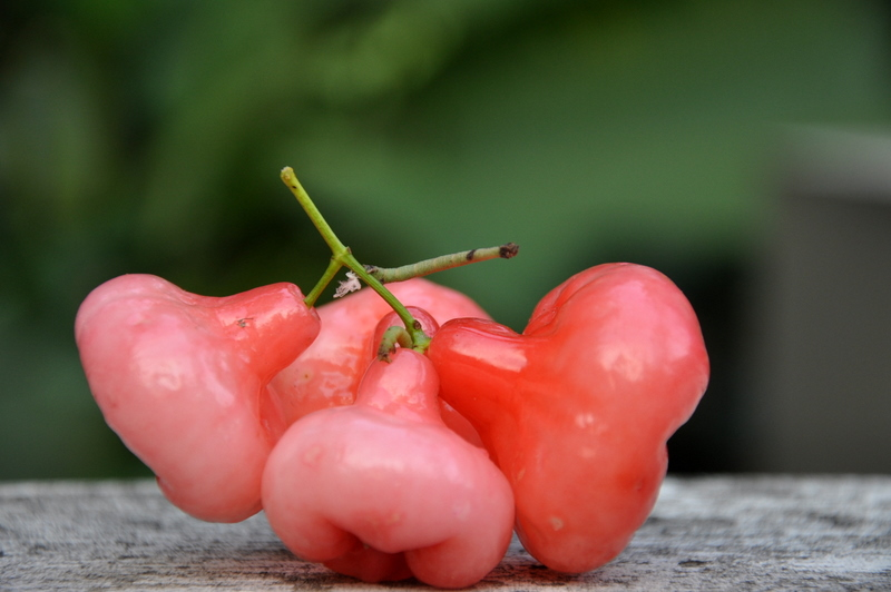 A Geometridae caterpillar, camouflaged as a broken twig, on Syzygium sp. fruit